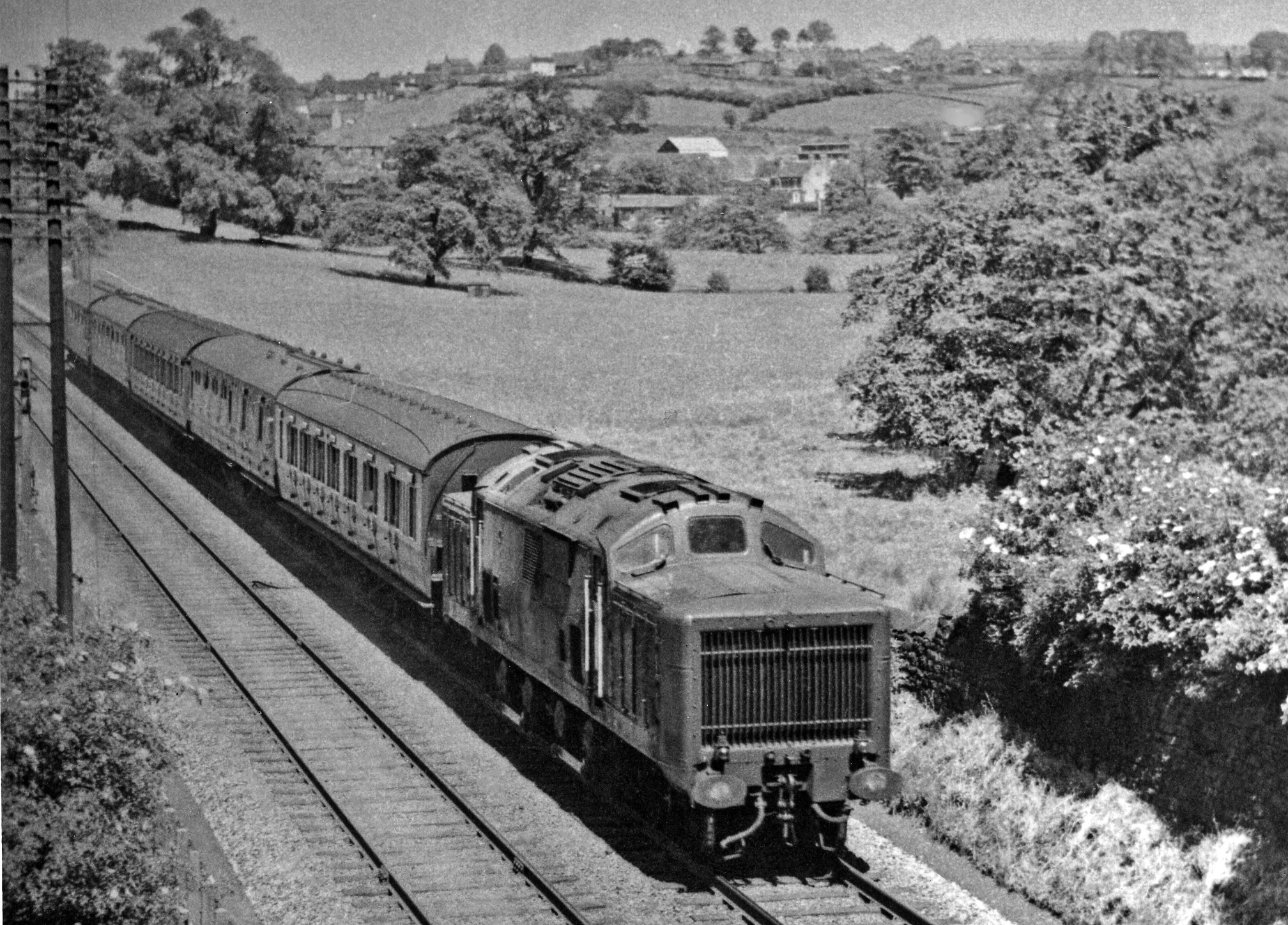 Experimental LMR Diesel-Mechanical 4-8-4 approaching Milford Tunnel on a train from Manchester via Millers Dale. View northward, towards Belper, Ambergate and via Matlock to Manchester or via Chesterfield to Sheffield etc. The train is the 11.25 semi-fast from Manchester Central, during one of the prolonged periods when this unusual locomotive worked on the Peak Line. (For more about the locomotive, see SK3635 : Experimental LMR Diesel-Mechanical 4-8-4 at Derby).